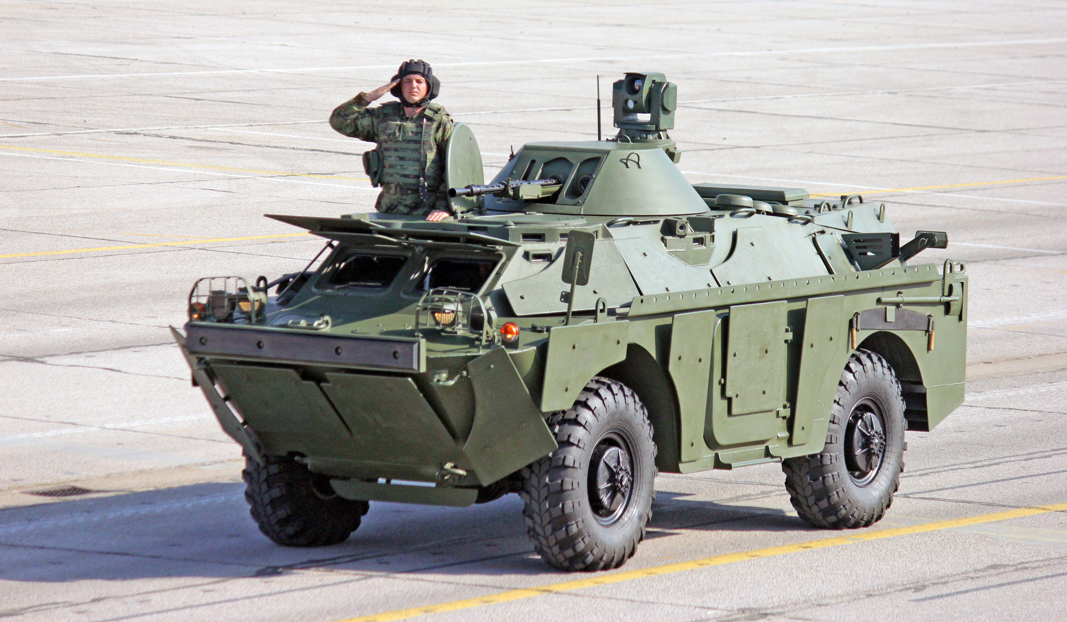 Serbian army newly donated BRDM-2MS armored recon vehicle on Sloboda 2019 military parade and exercise at "Colonel-pilot Milenko Pavlović" military airport.